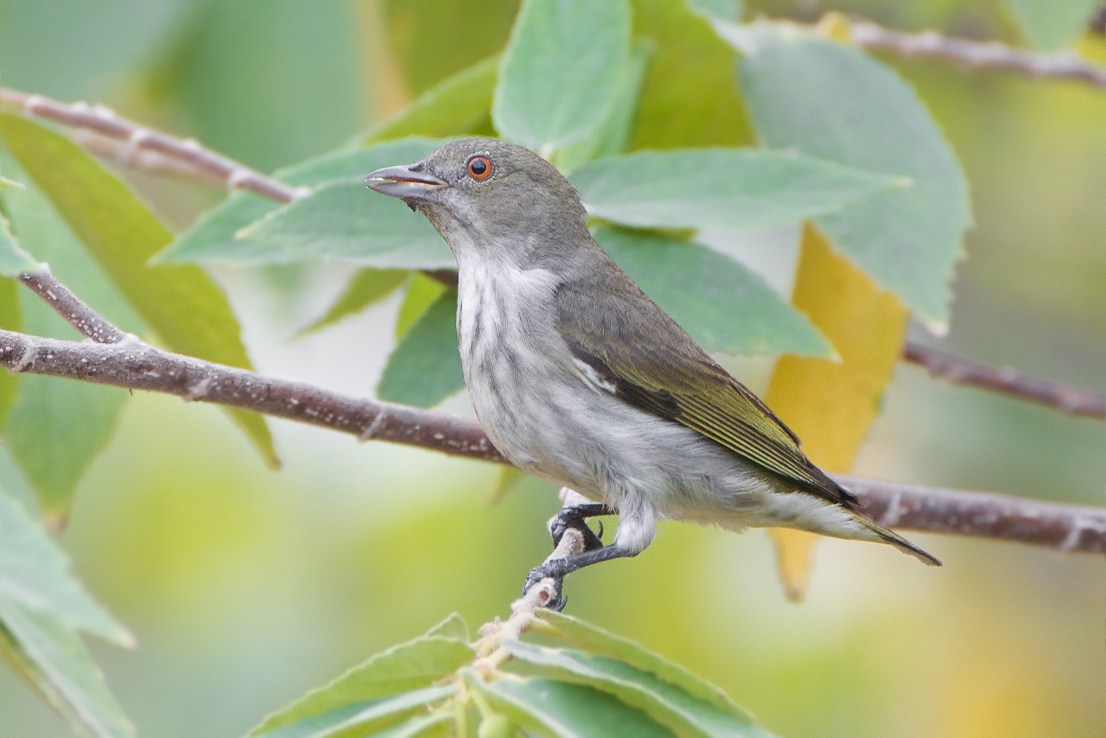 Thick-billed Flowerpecker (Dicaeum agile) subsp. modestum, Song Phi Nong, Kaeng Krachan, Phetchaburi, Thailand